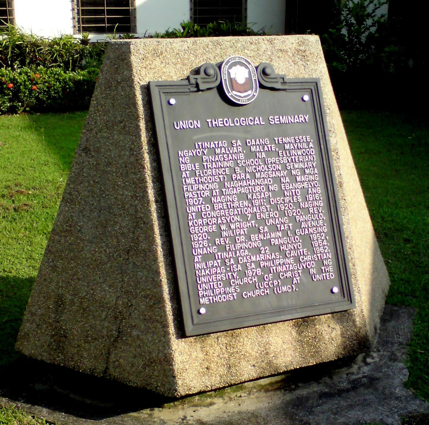 One of the two markers unveiled by the National Historical Institute for UTS